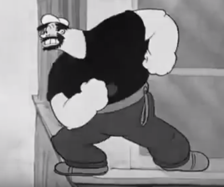 Bluto in The Paneless Window Washer (1937). Film in Public Domain